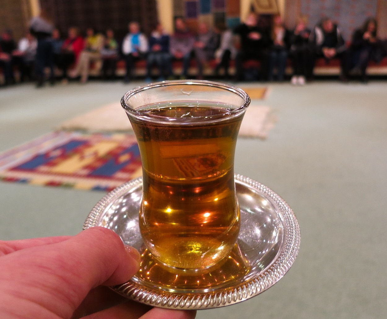 Traditional tea glass in Turkey